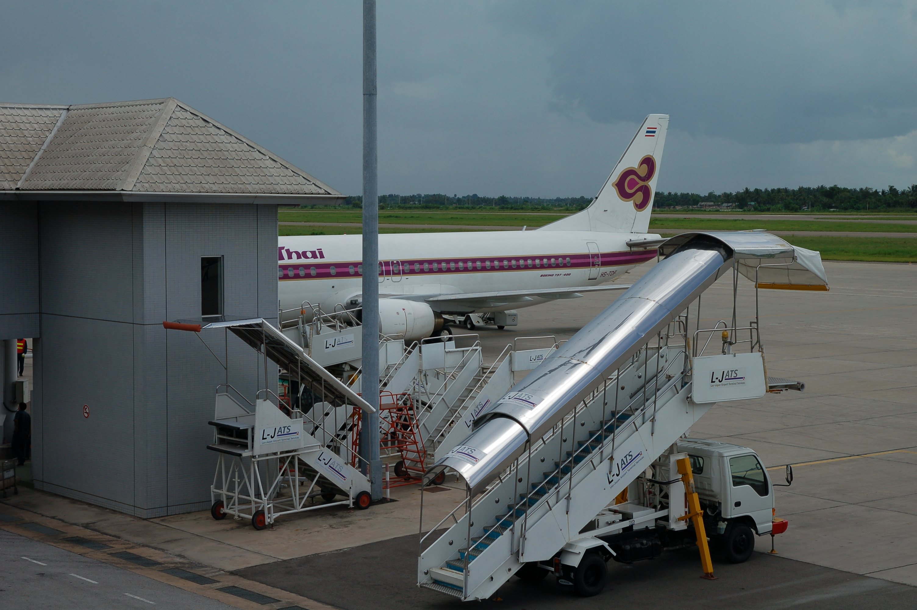 More photos of this plane here